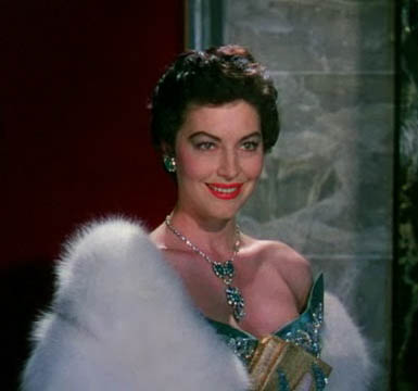 Screenshot of Ava Gardner from the trailer for the film The Barefoot Contessa.